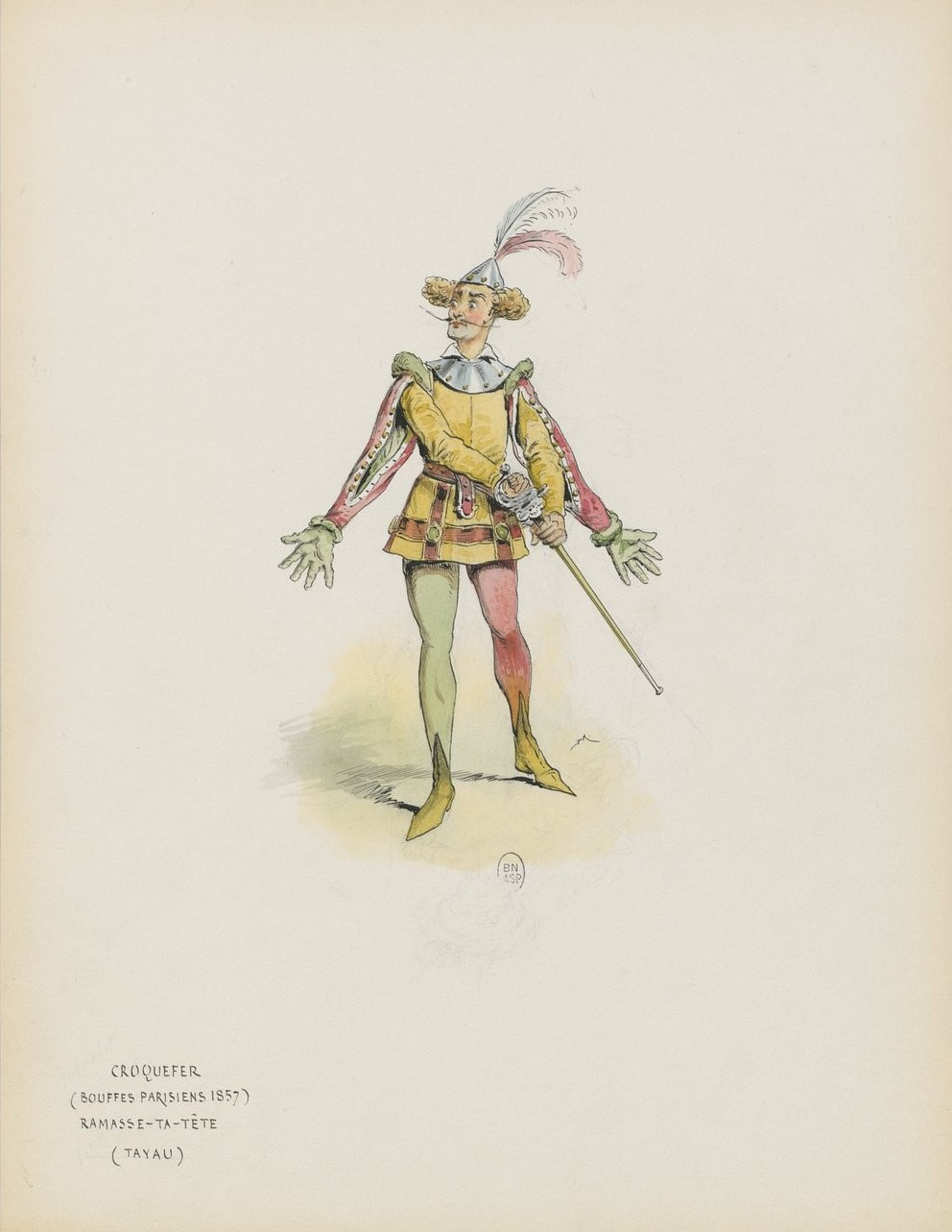 Henri Tayau as Ramasse-ta-Tête in Jacques Offenbach's operetta "Croquefer", Bouffes-Parisiens 1857, drawing by Draner